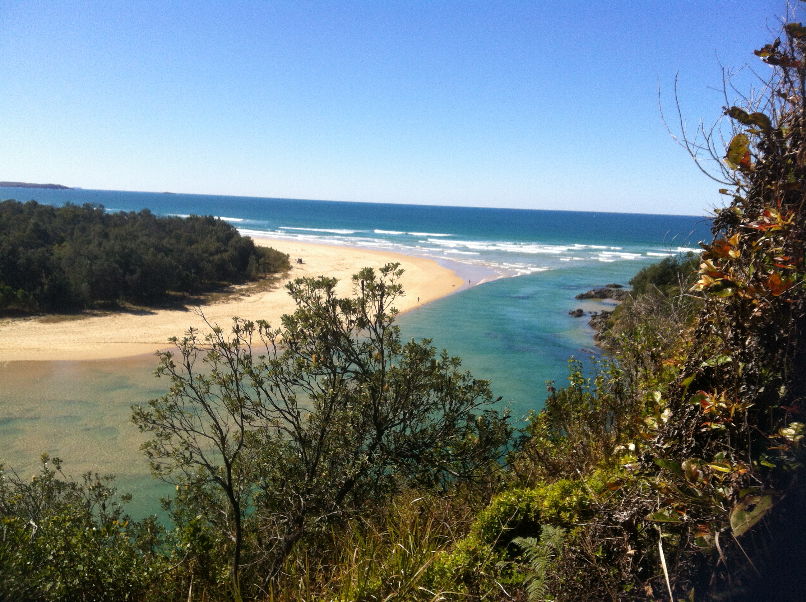 Boambee Bay near Coffs Harbour